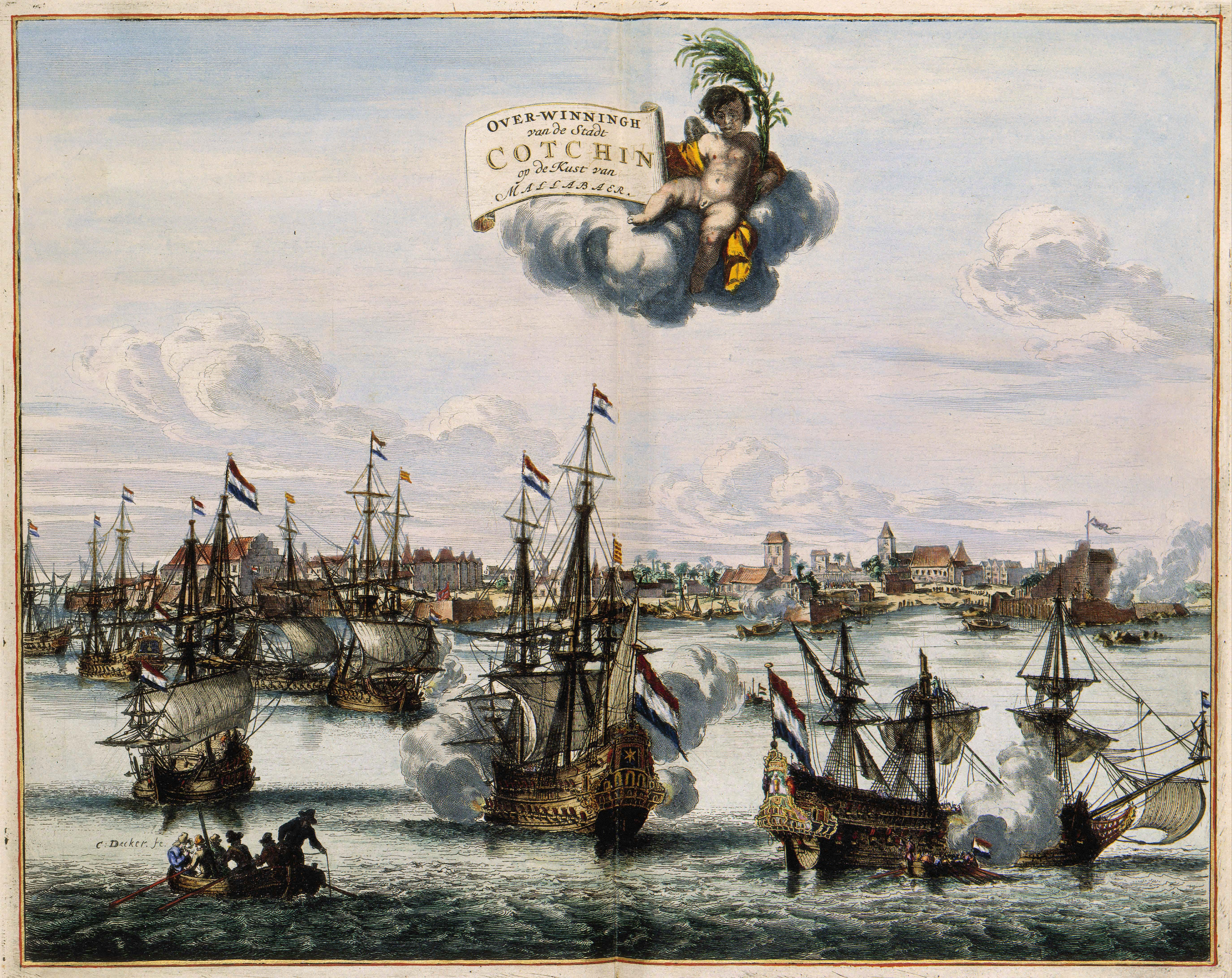 The capture of Kochi and victory of the Dutch V.O.C. over the Portuguese in 1663, on the coast of Mallabar.